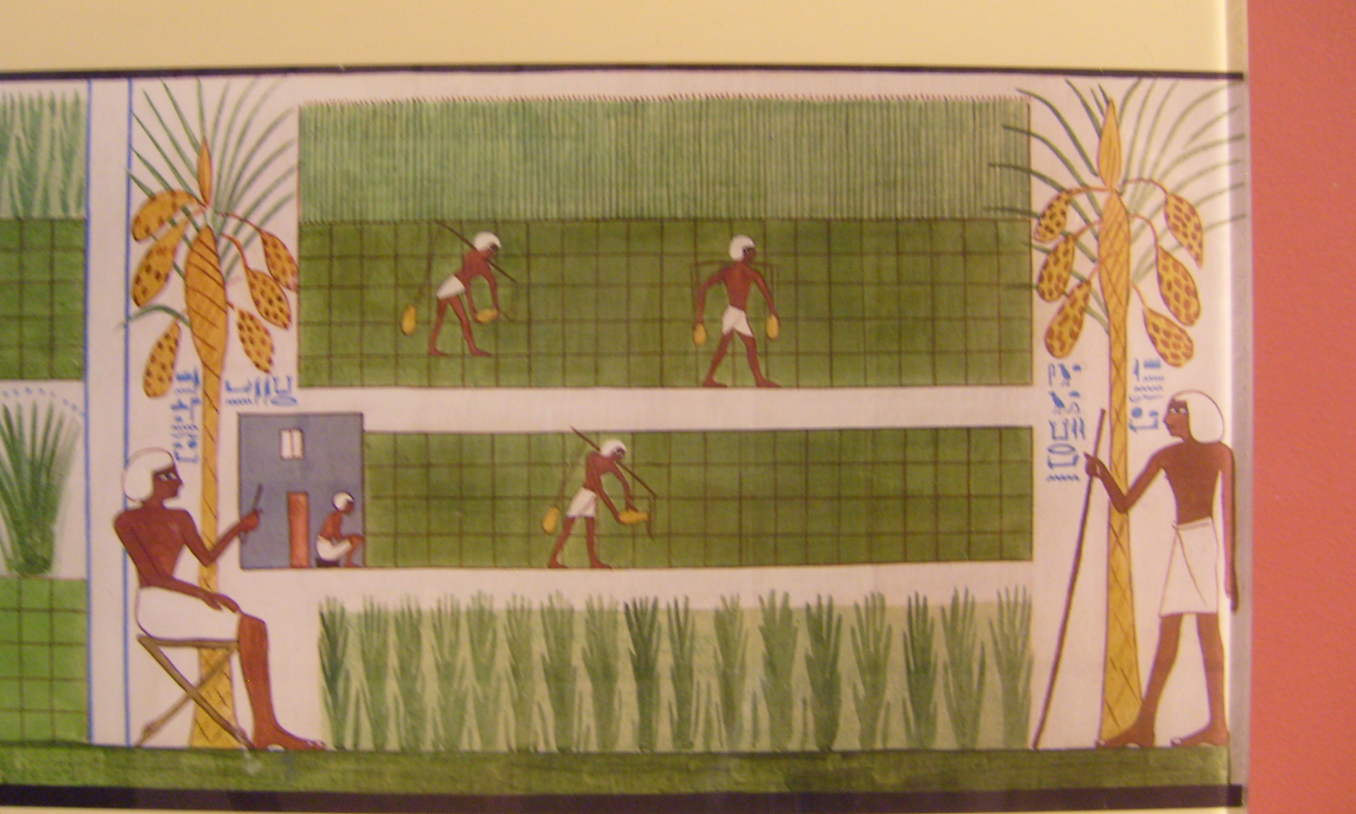 Gardens of Amon at the Temple of Karnak, a painting in the tomb of Nakh, the chief gardener, early 14th century. (Royal Museum of Art and History in Brussels).